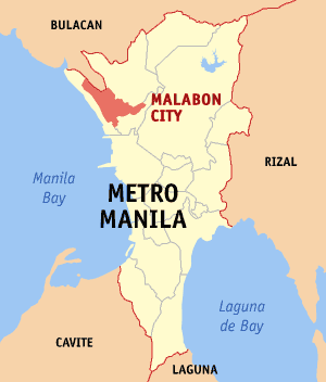 Locator map of Malabon City in Metro Manila, Philippines.